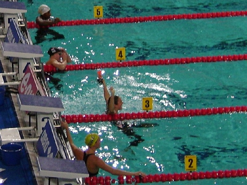 Marleen Veldhuis, direct after her world record at the 50 m freestyle at the European LC Championships 2008 in Eindhoven, cropped